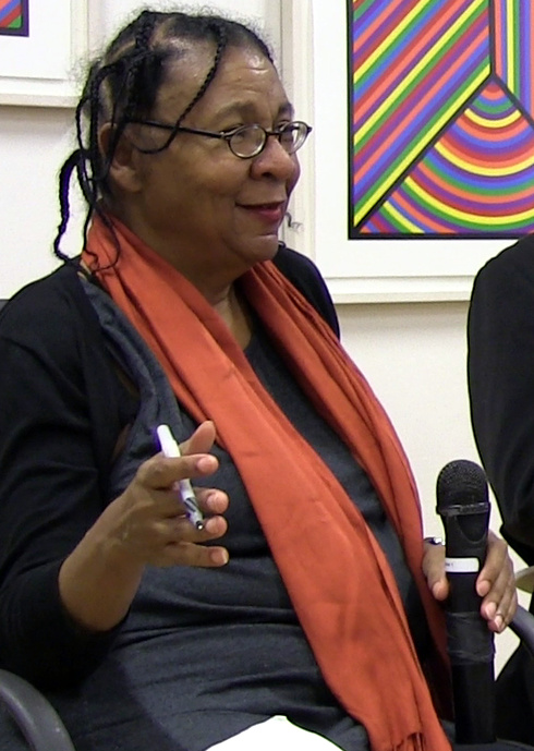 bell hooks, Samuel R. Delany, M. Lamar, and Marci Blackman at the New School